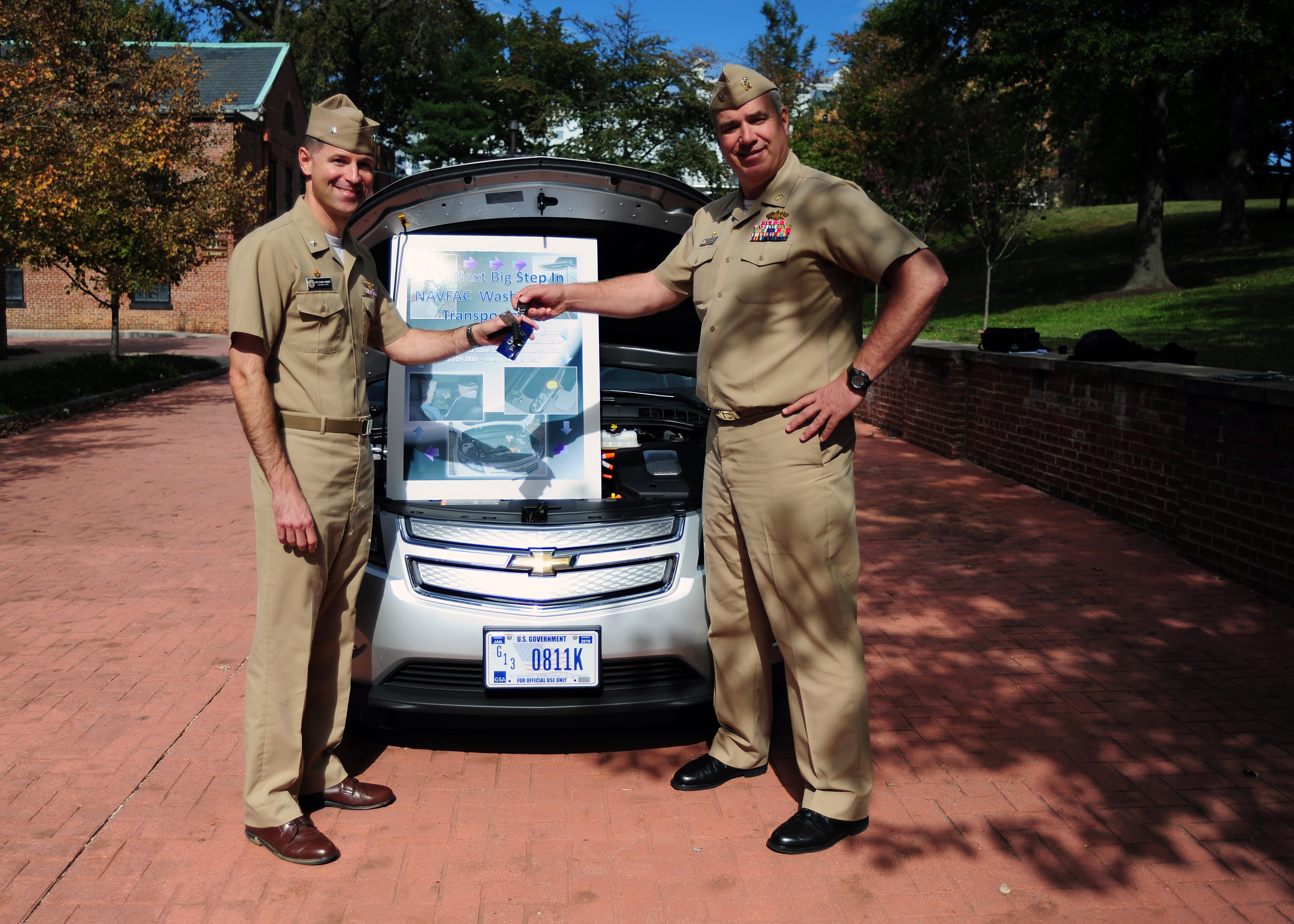 WASHINGTON (Oct. 21, 2011) Cmdr. David Varner, commanding officer of Naval Support Activity Washington, receives the keys to a Chevrolet Volt electric car from Cmdr. Kenneth Branch, commanding officer of Naval Facilities Engineering Command. The electric car is part of the Department of Defense and General Services Administration Plug-in Hybrid Electric Vehicles Pilot project. (U.S. Navy photo by Mass Communication Specialist 2nd Class Kiona Miller/Released)